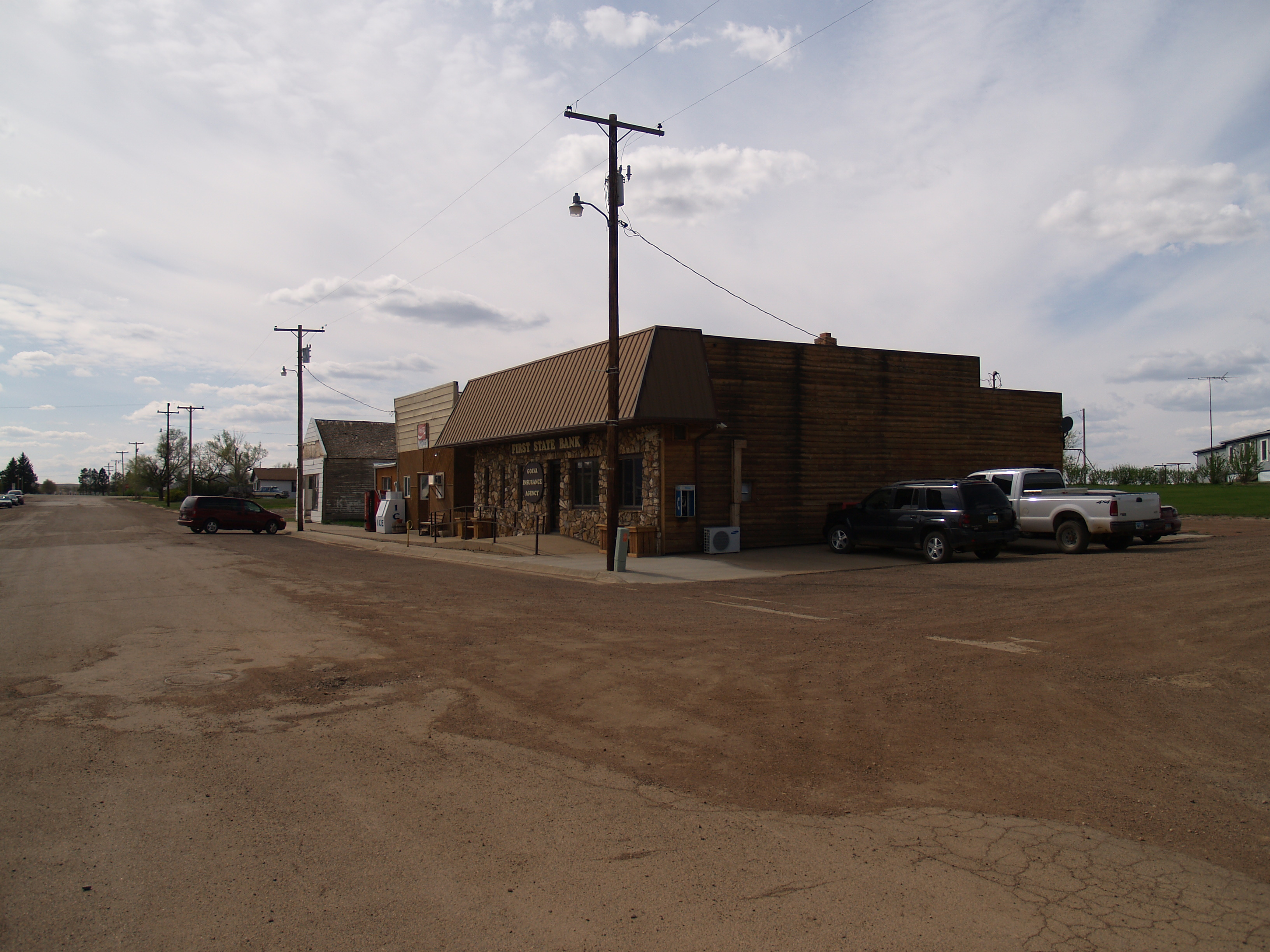 First State Bank in Golva, North Dakota.